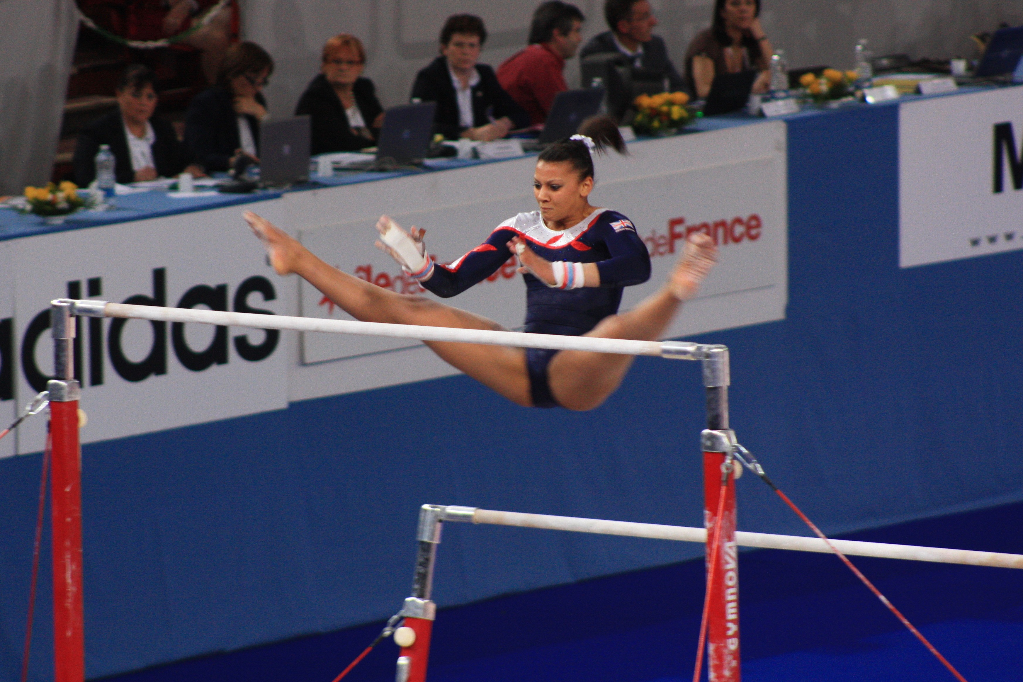 Rebecca Downie in the uneven bars qualifications at the 17th Internationaux de France, in 2010.